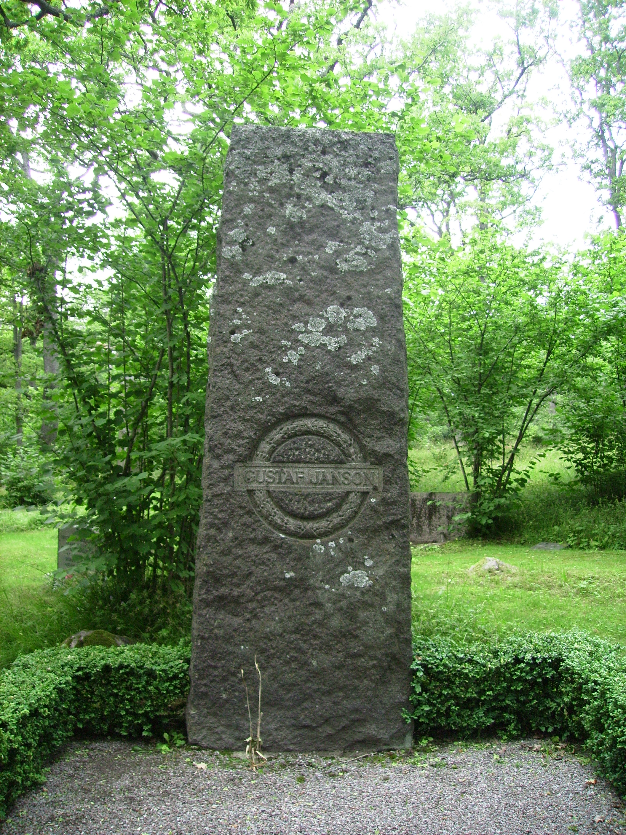 Picture of Gustaf Janson's grave at Djursholms burial ground